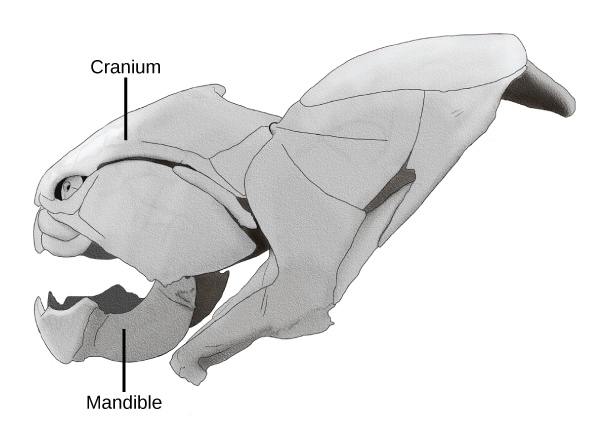 Name: Biology ID: Language: English Summary: Biology is designed for multi-semester biology courses for science majors. It is grounded on an evolutionary basis and includes exciting features that highlight careers in the biological sciences and everyday applications of the concepts at hand. To meet the needs of today’s instructors and students, some content has been strategically condensed while maintaining the overall scope and coverage of traditional texts for this course. Instructors can customize the book, adapting it to the approach that works best in their classroom. Biology also includes an innovative art program that incorporates critical thinking and clicker questions to help students understand—and apply—key concepts. Subjects: Science and Technology Keywords: cells,DNA,gene,expressio,nphylogeny,conservation,biodiversity,biology,chemistry,evolution,proteins,bacteria,fungi,cell,membranes,inheritance,physiology,ecology,genetics,biotechnology,biosphere,photosynthesis,biological,molecules,cell structure,metabolismc,ellular respiration,genes,cell communication,cell reproduction,meiosis,sexual reproduction,genomics,study of life,cell function,animal diversity,animal reproduction,plant nutrition,soilseedless plantsplant physiologyplant reproductionanimal bodycirculatory systemdigestive systemendocrine systemnervous systemrespiratory systemorigin of speciesecosystemsarchaeasensory systemosmotic regulationimmune systemvertebratesviruspopulation ecologymusculoskeletal systembehavioral biologyanimal biologyanimal physiologybiology for majorscollege biologyeukaryotesinvertebratesmacromoleculesplant biologypopulation evolutionprokaryotesprotistsseed plants Print Style: CCAP Biology License: Creative Commons Attribution License (by 4.0) Authors: OpenStax Copyright Holders: Rice University Publishers: OpenStax OpenStax Biology Latest Version: 10.53 First Publication Date: Aug 22, 2012 Latest Revision: May 27, 2016 Last Edited By: OpenStax Biology